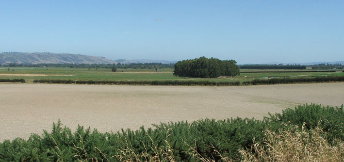 Looking east across the Taieri Plains from near the New Zealand town of Outram, photographed by James Dignan (User:Grutness) in February 2008